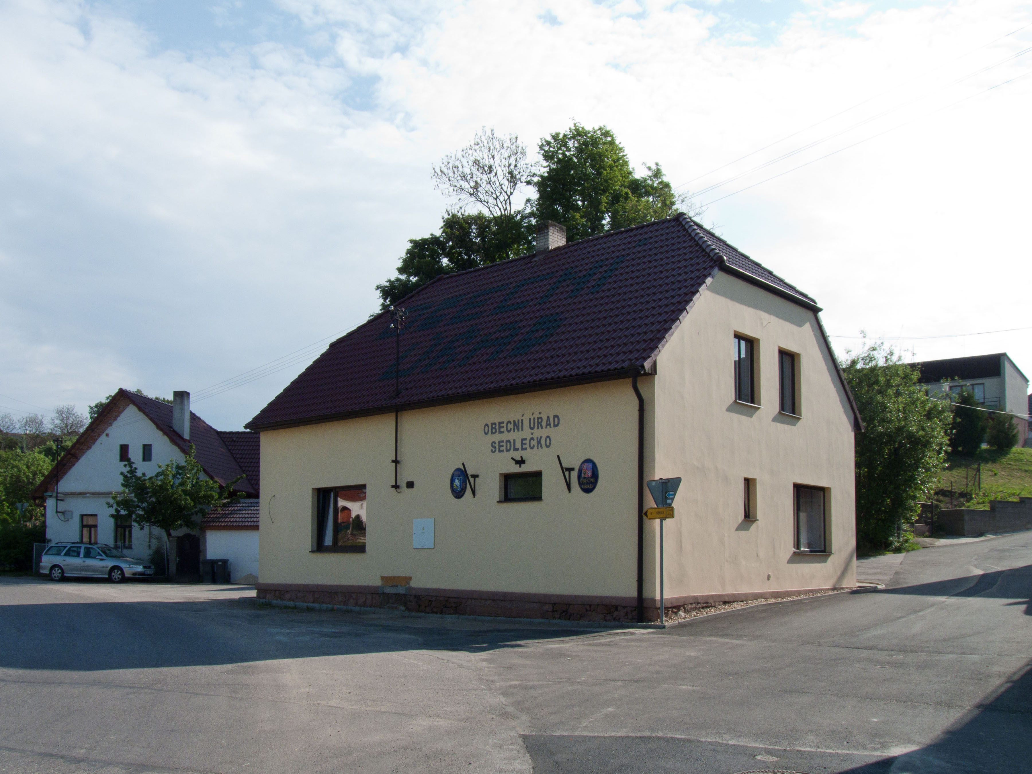 Municipal office building in the village of Sedlečko u Soběslavě, Tábor District, Czech Republic. Česky: Budova obecního úřadu v obci Sedlečko u Soběslavě v okrese Tábor.